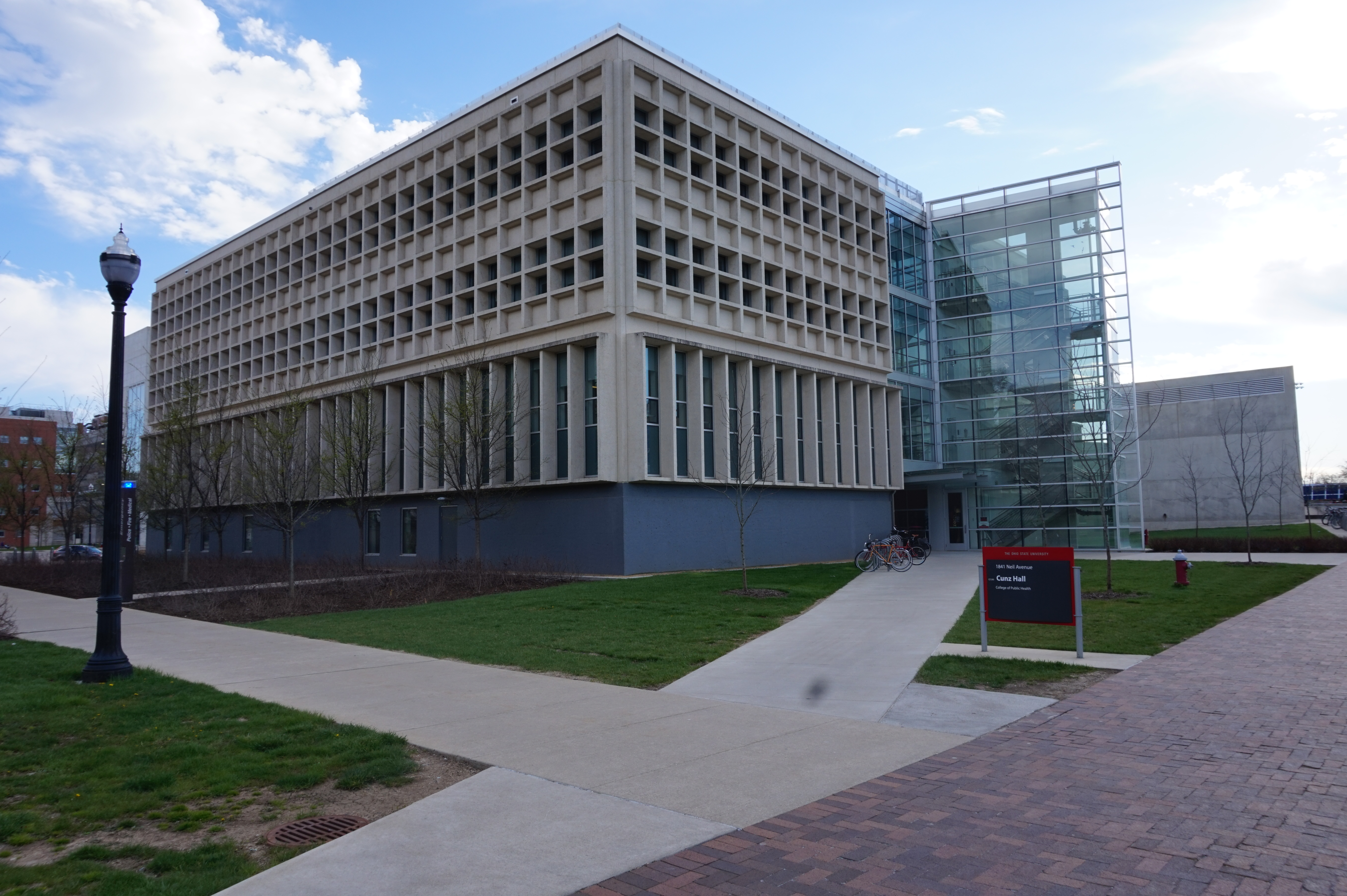 Cunz Hall, home of the College of Public Health at The Ohio State University.